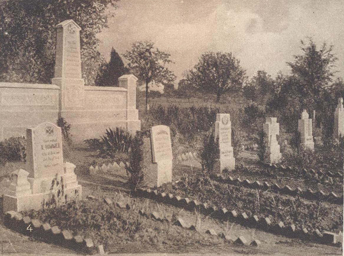 From the West Front. German Cemetery in Beaulieu-Ecuvilly. "Album de la Grande Guerre" №10, 1915